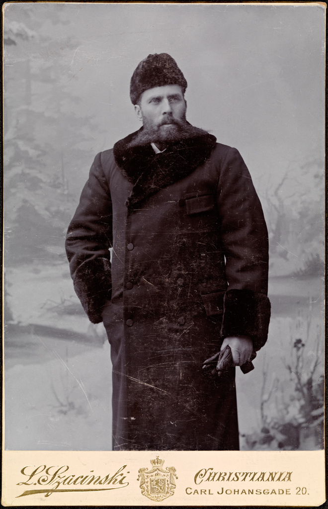 Tittel / Title: Otto Sverdrup Fotograf / Photographer: L. Szacinski (Christiania) Sted / Place: Christiania Eier / Owner Institution: Nasjonalbiblioteket / National Library of Norway Lenke / Link: Bildesignatur / Image Number: blds_03646